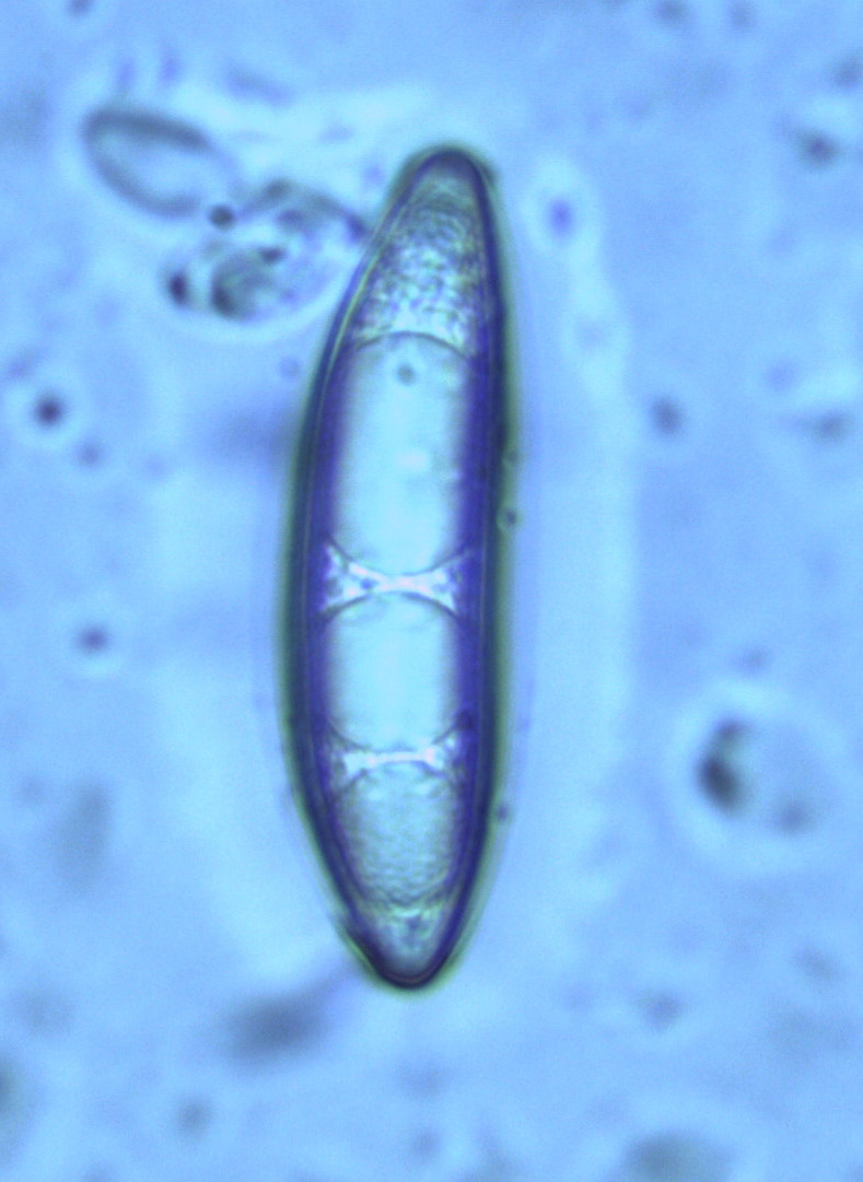 A basidiospore from the ascomycete species Chorioactis geaster. Cropped from original by uploader.